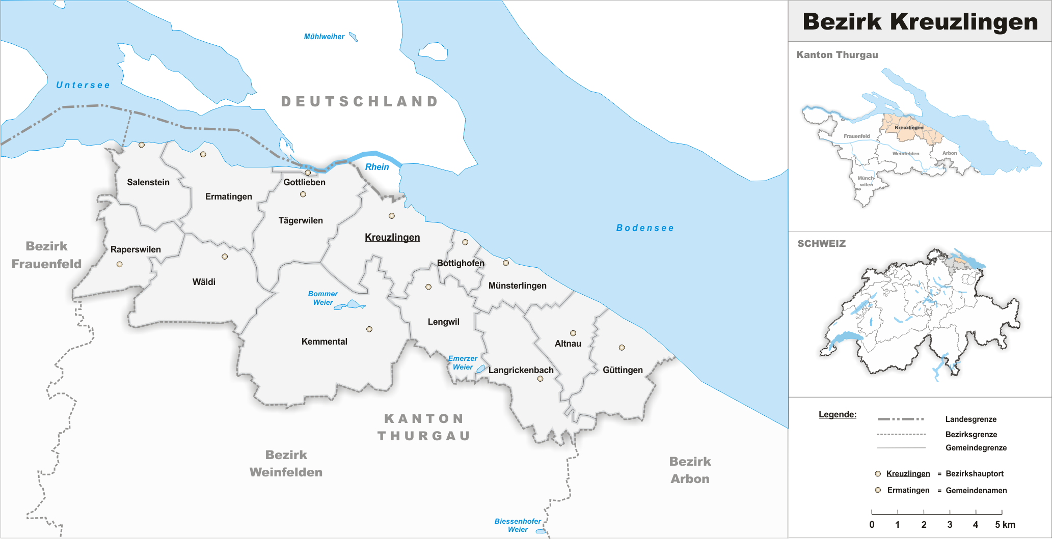 Municipalities in the district of Kreuzlingen